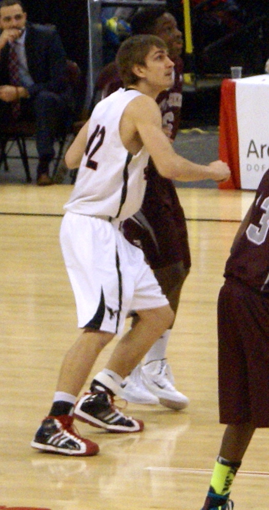 Opening tip of the CIS Basketball final 2014 between Ottawa Gee-Gees and Carleton Ravens